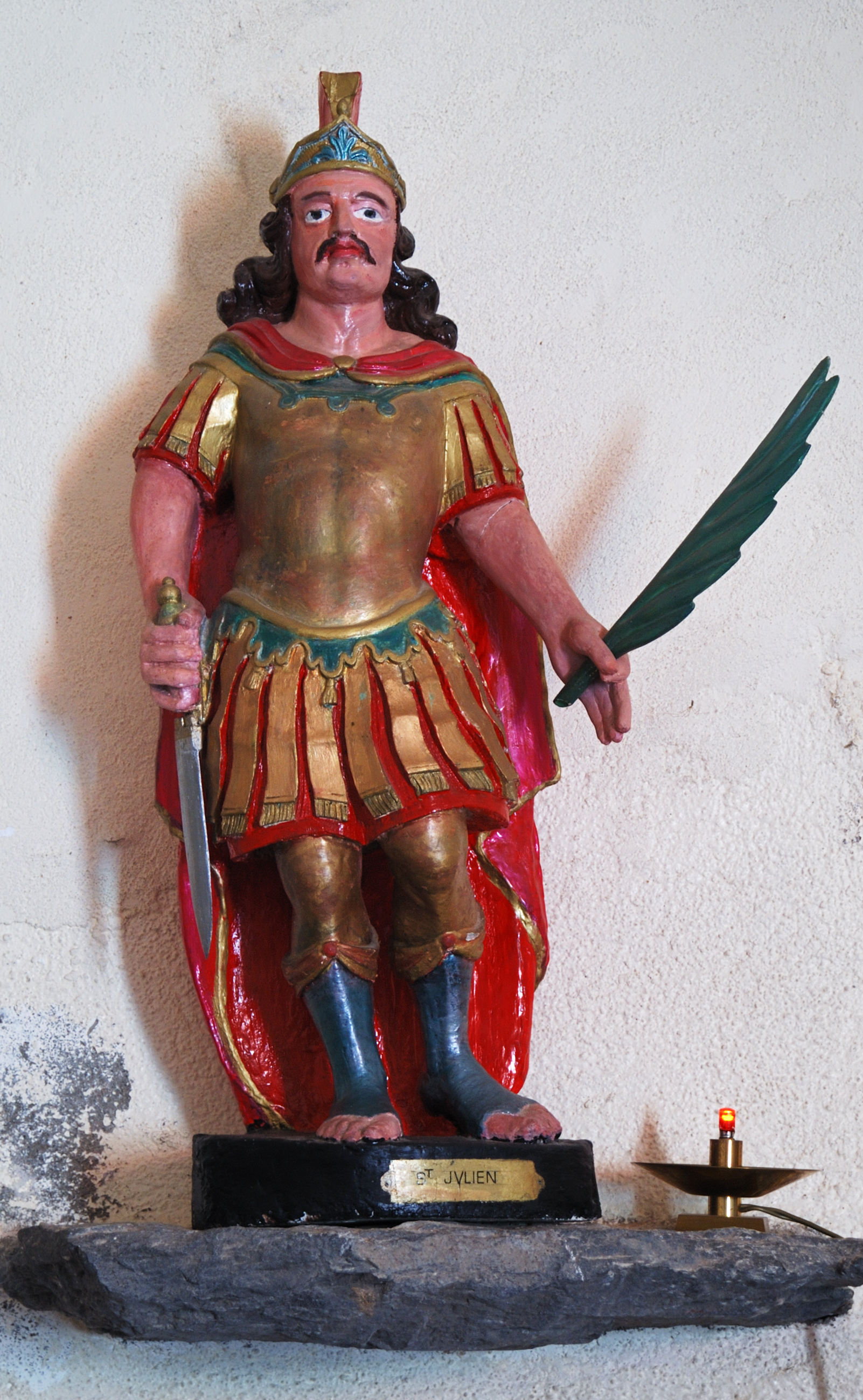 Village of Saint-Julien : Statue of Saint Julien in the church (Puy-de-Dôme, France). Translations in other languages are welcome.